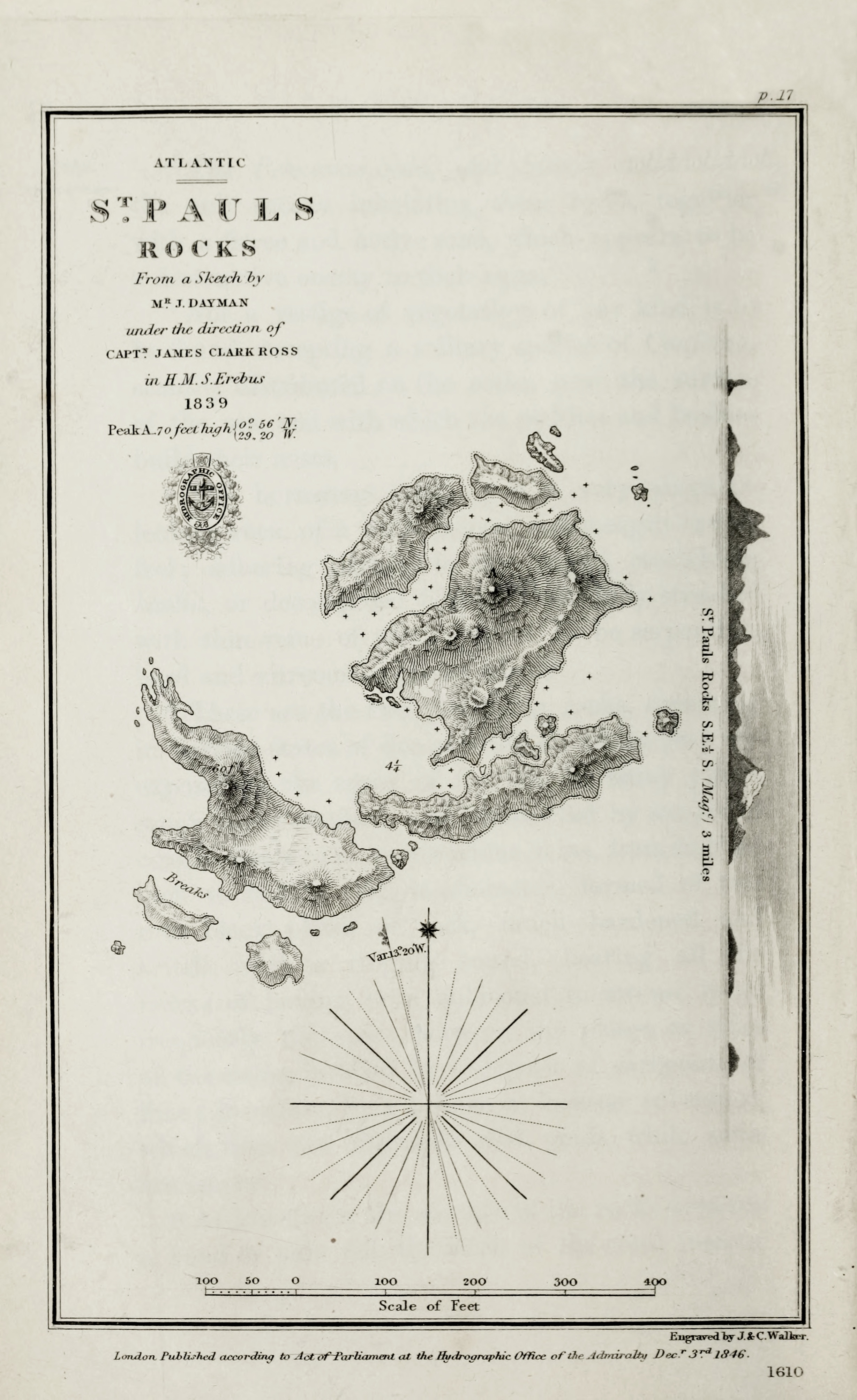 image on page 84 of File:A Voyage of Discovery and Research in the Southern and Antarctic Regions Vol 1.djvu